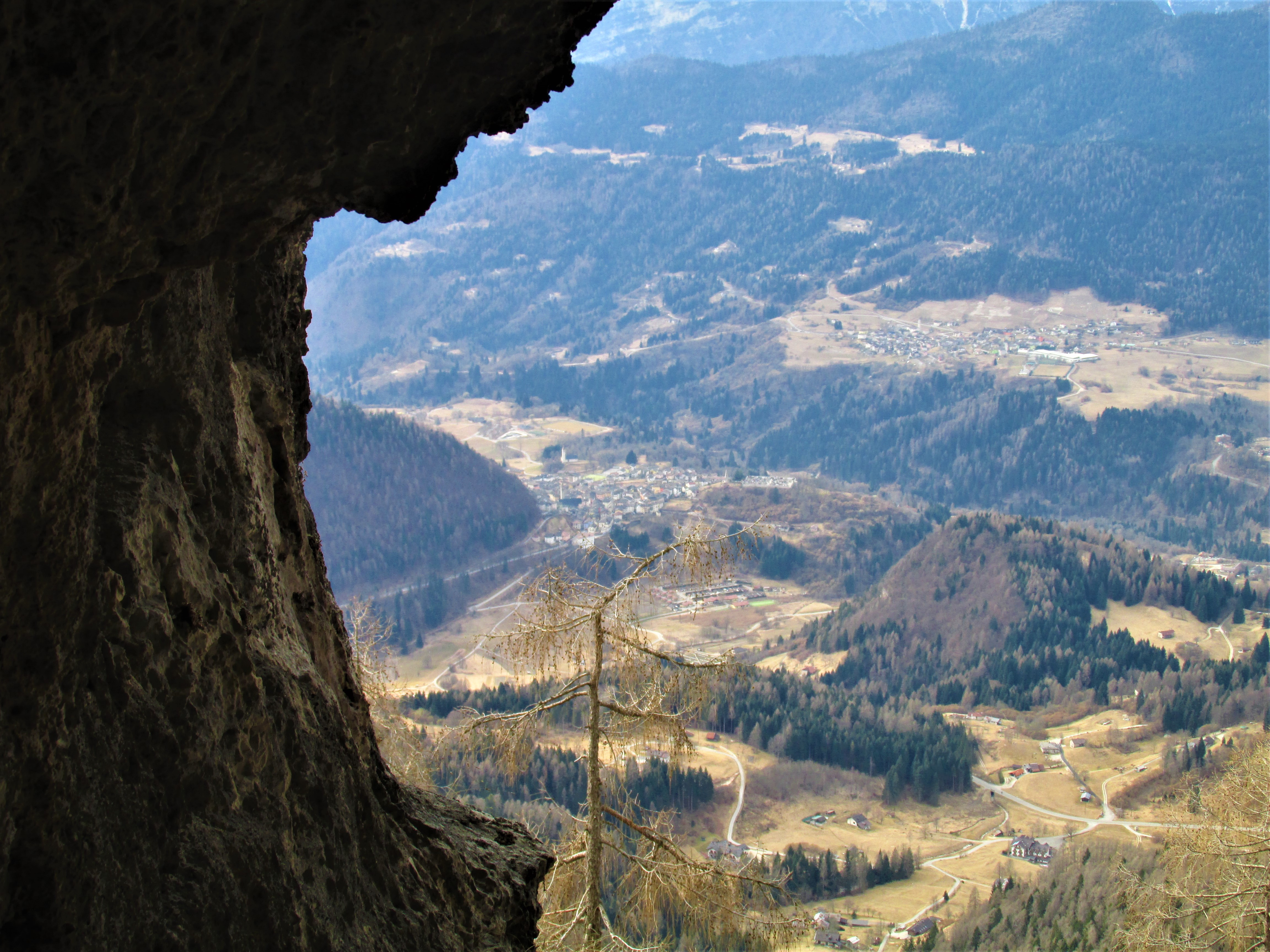 View of Castello Tesino